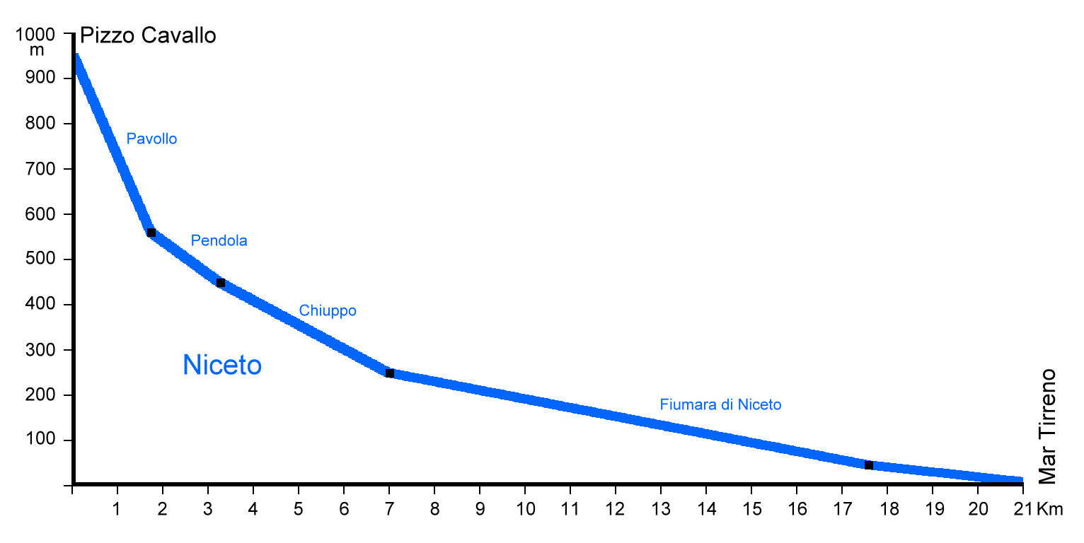 Profile of the River Niceto.